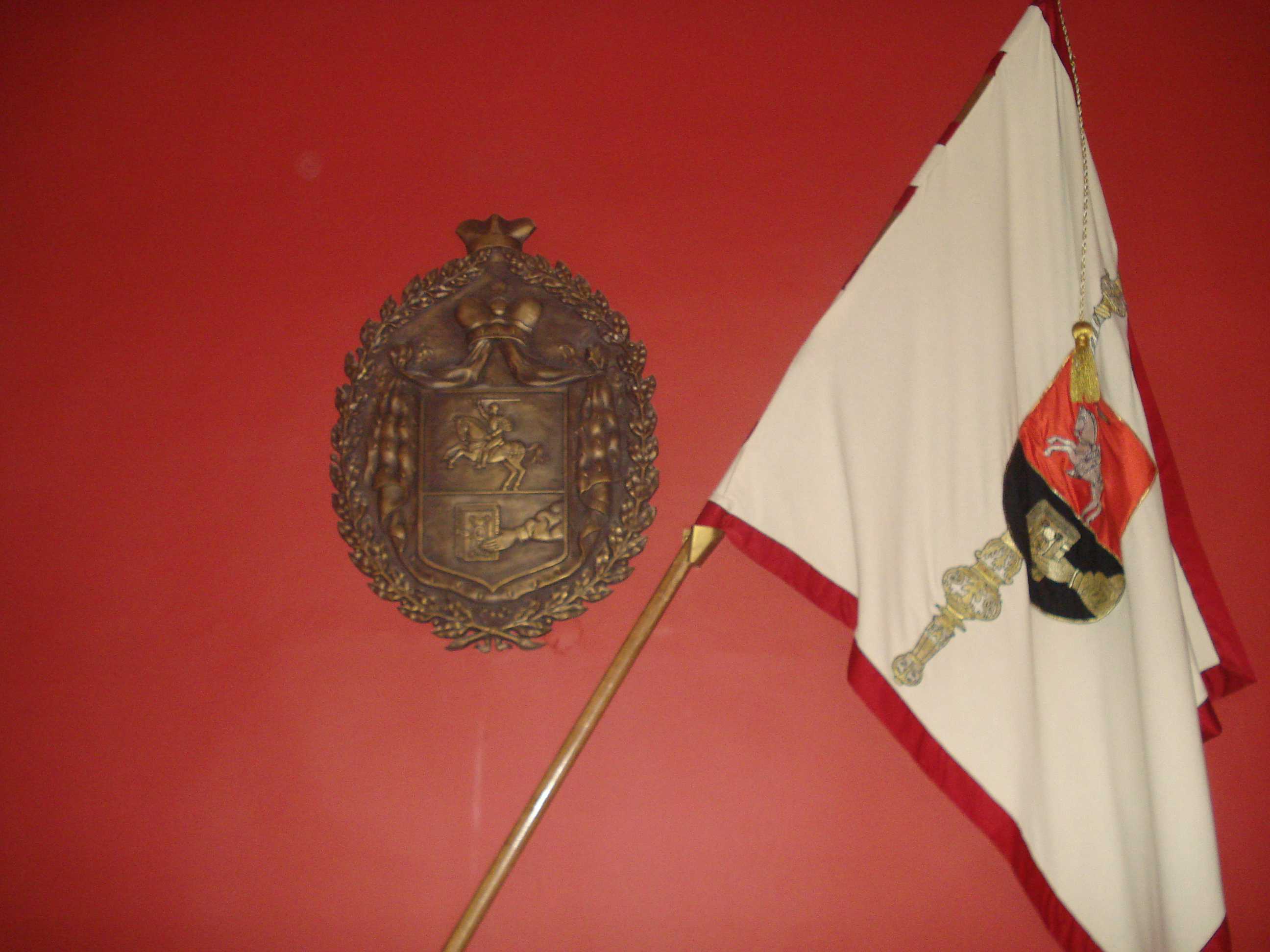 Coat of arms and flag of the Vilnius University in the Aula